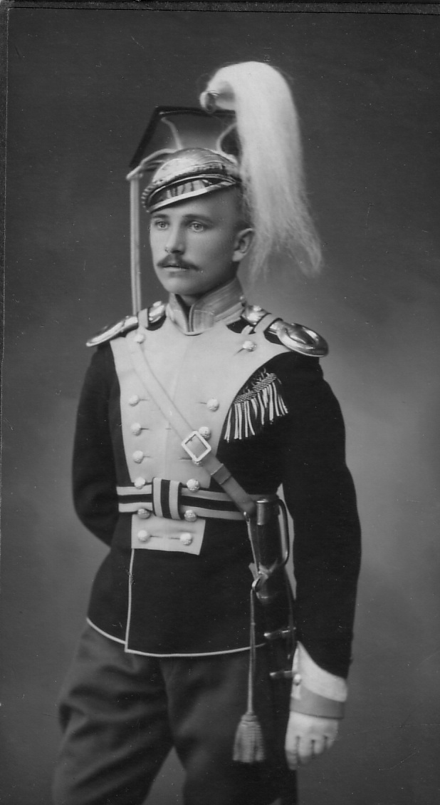 The Tver cavalry school. Sword belts-cadets Petrov Feodor.